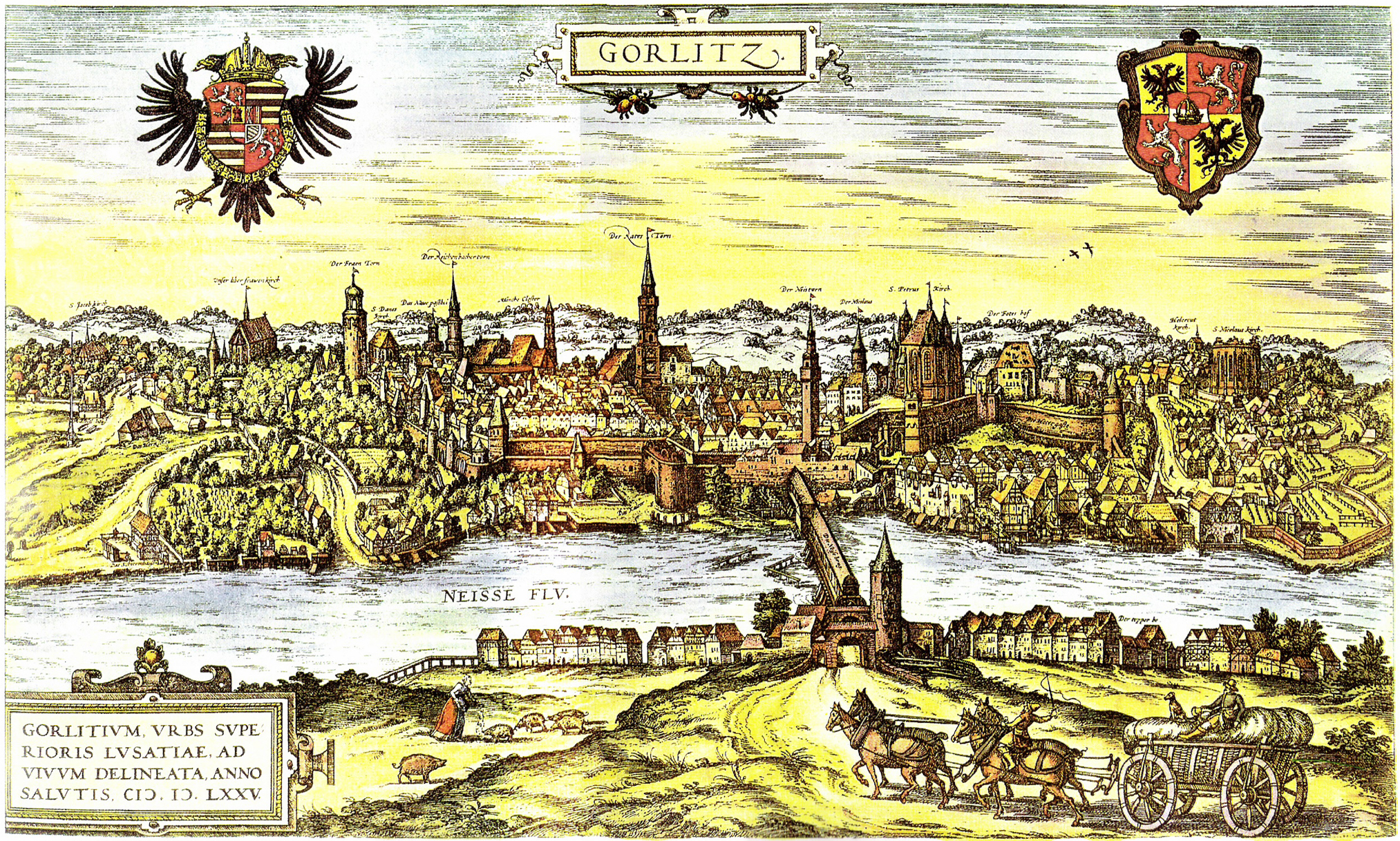 Colorized engraving of 1575 showing the city of Görlitz in Saxony (Germany). View from the east. Original size 30.2 × 49.4 cm